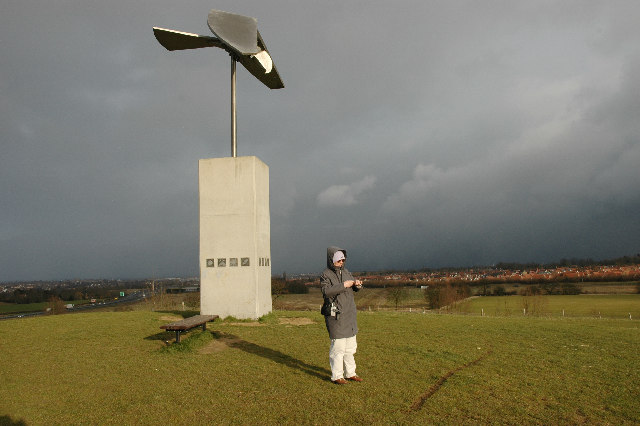 Bird Sculpture above Great Notley Country Park. This sculpture looks out over the country park.The A120 is on the left and the village of Great Notley in the distance on the right.